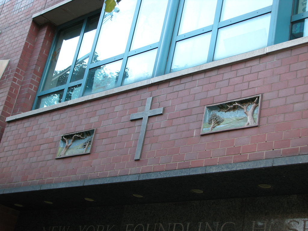 Entrance to the New York Foundling Home, among the oldest adoption homes in the United States.